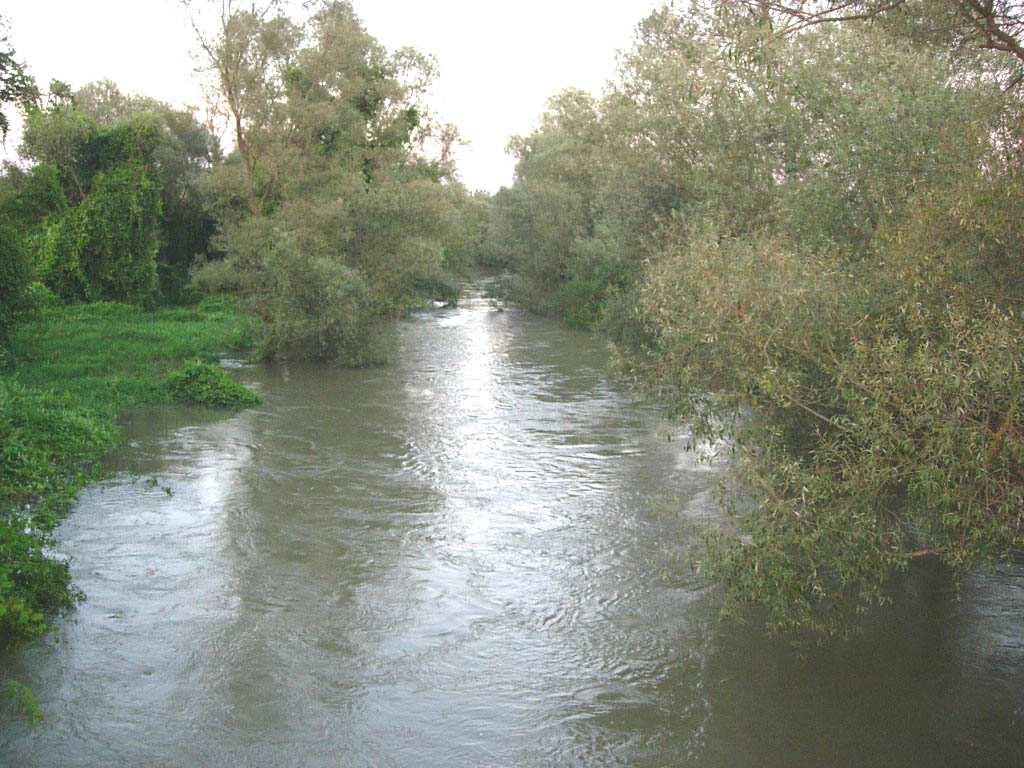 The Karaš River near Dobričevo.